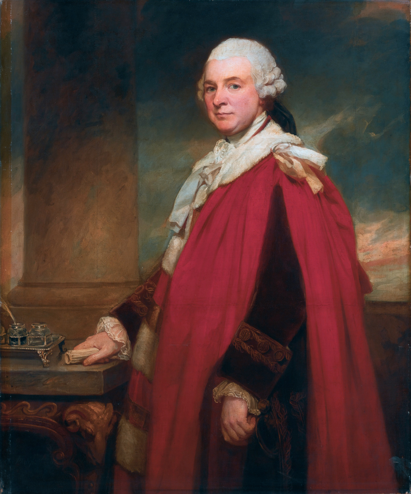 Philip Yorke, 2nd Earl of Hardwicke. oil on canvas 122 x 102 cm. iunscribed b.l.: Philip 2nd Earl of Hardwicke